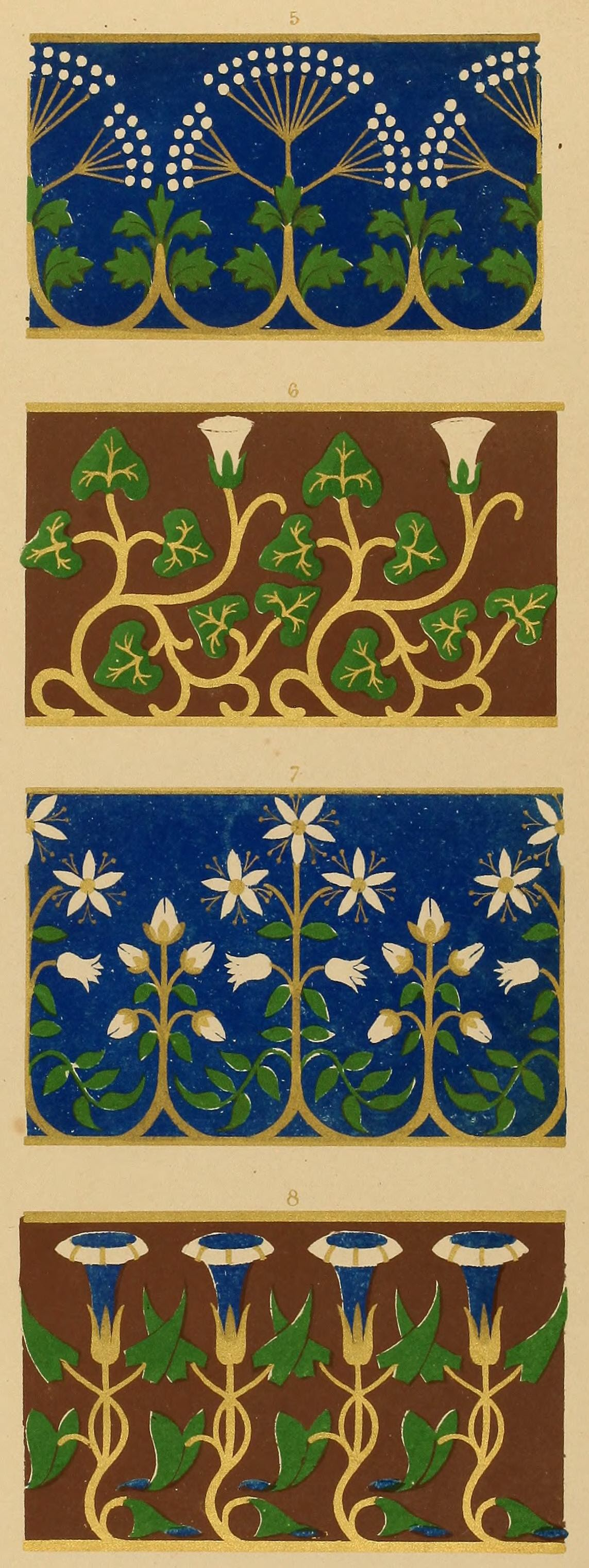 [Detail] Floriated ornament: a series of thirty-one designs (1849) In the Mary Ann Beinecke Decorative Art Collection. Sterling and Francine Clark Art Institute Library.